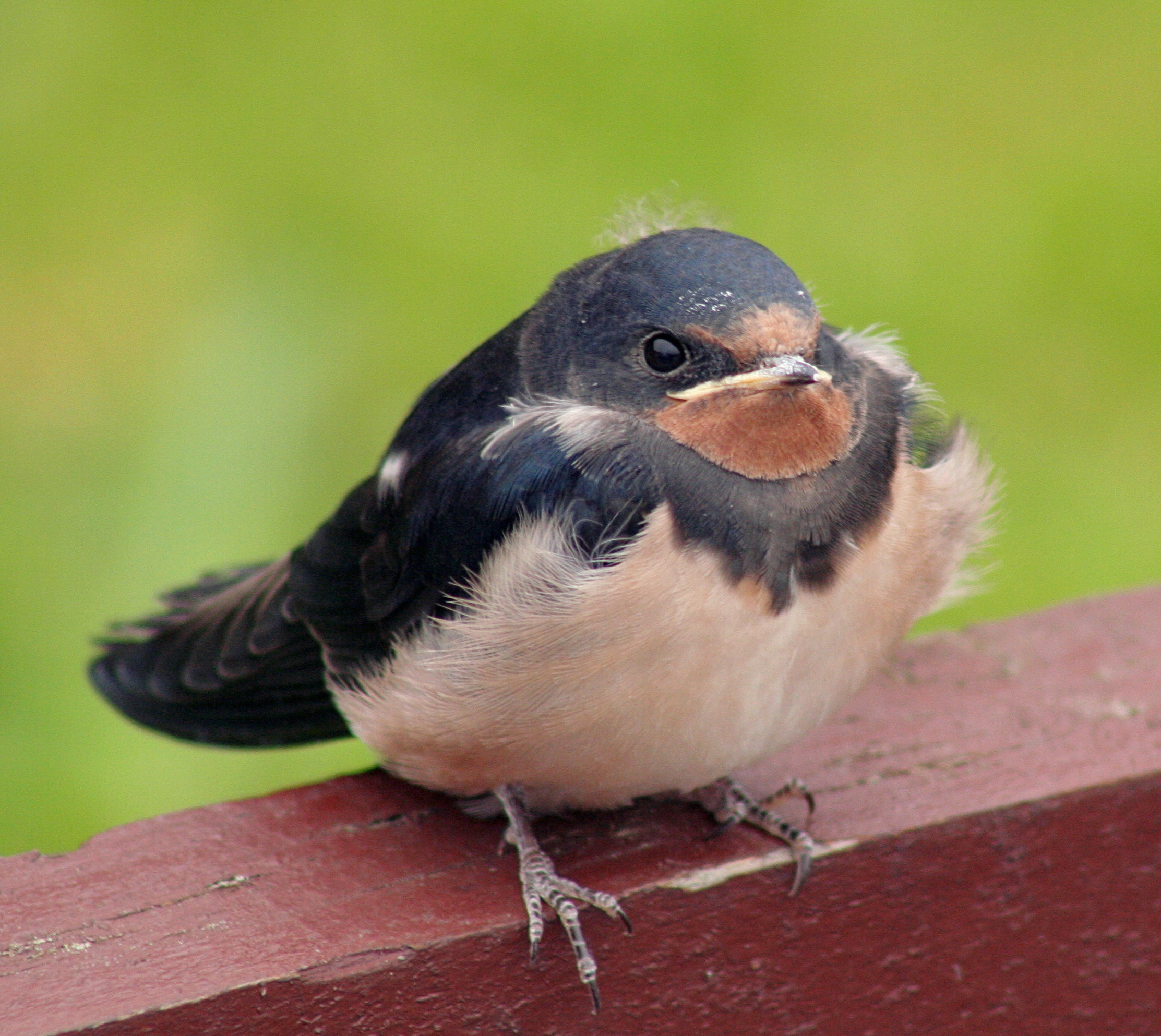 Barn Swallow fledgling sat patiently waiting for one of its parents to return with some food. Photographed in Sutherland, Scotland, UK.